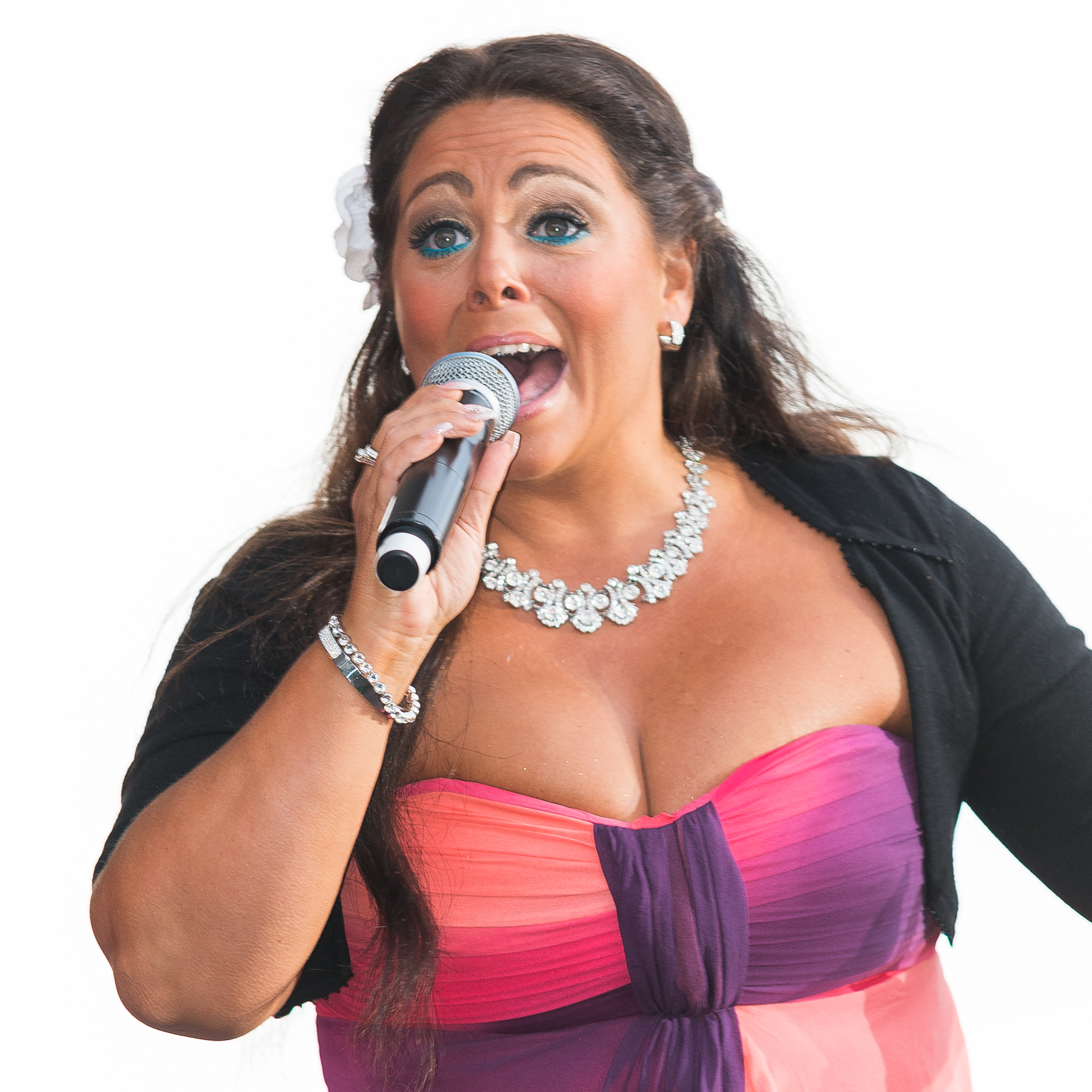 Anna Book at Stockholm Pride 2015